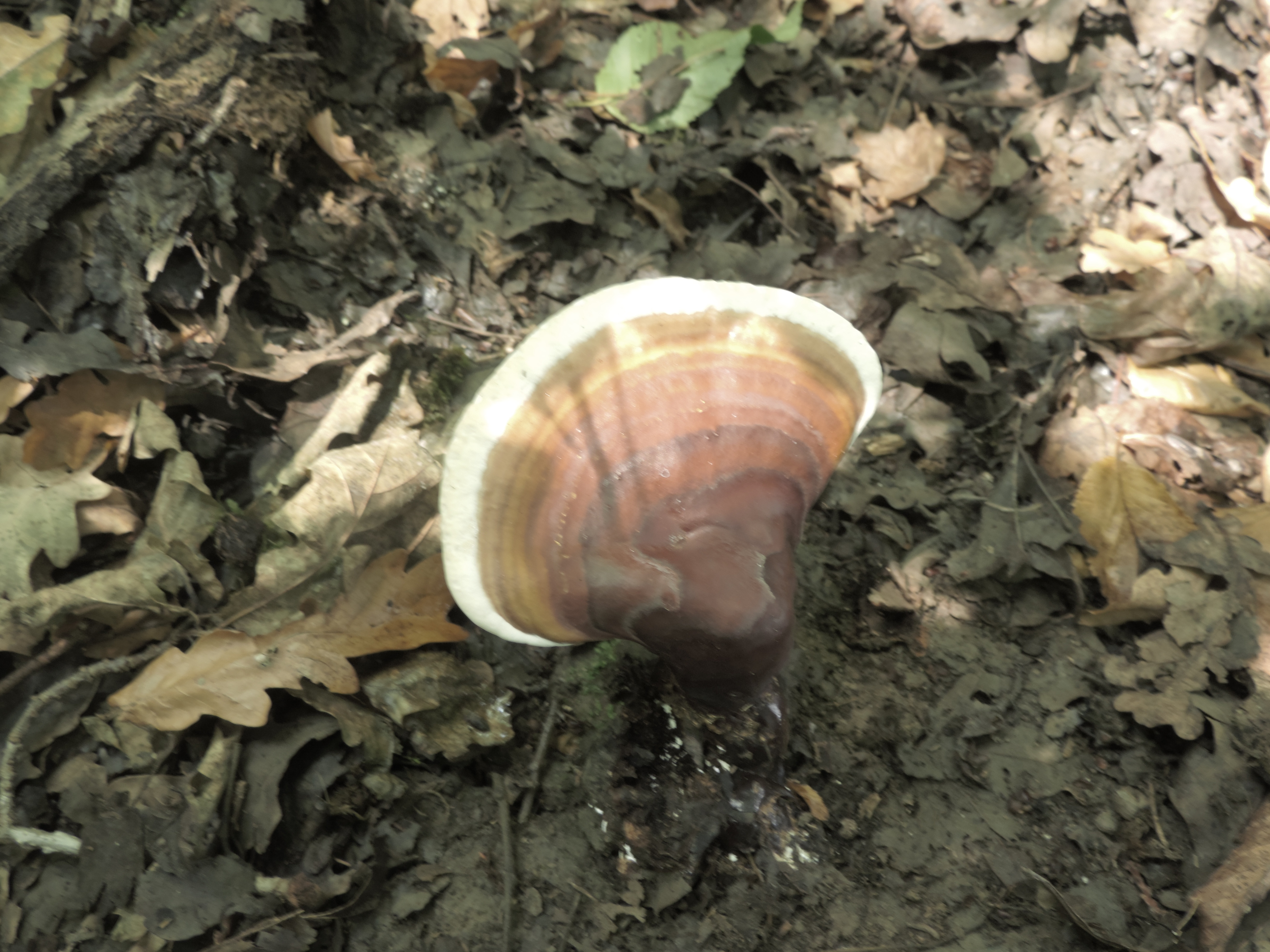 Ganoderma lucidum